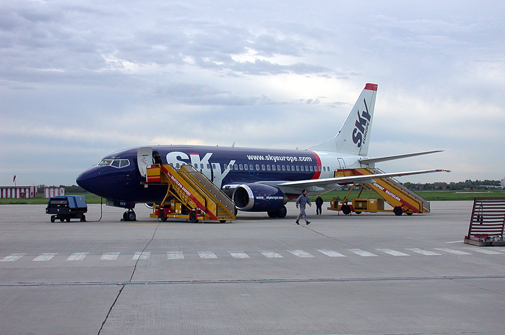 Boeing 737-500 of SkyEurope in Bratislava; aircraft registration: OM-SEB